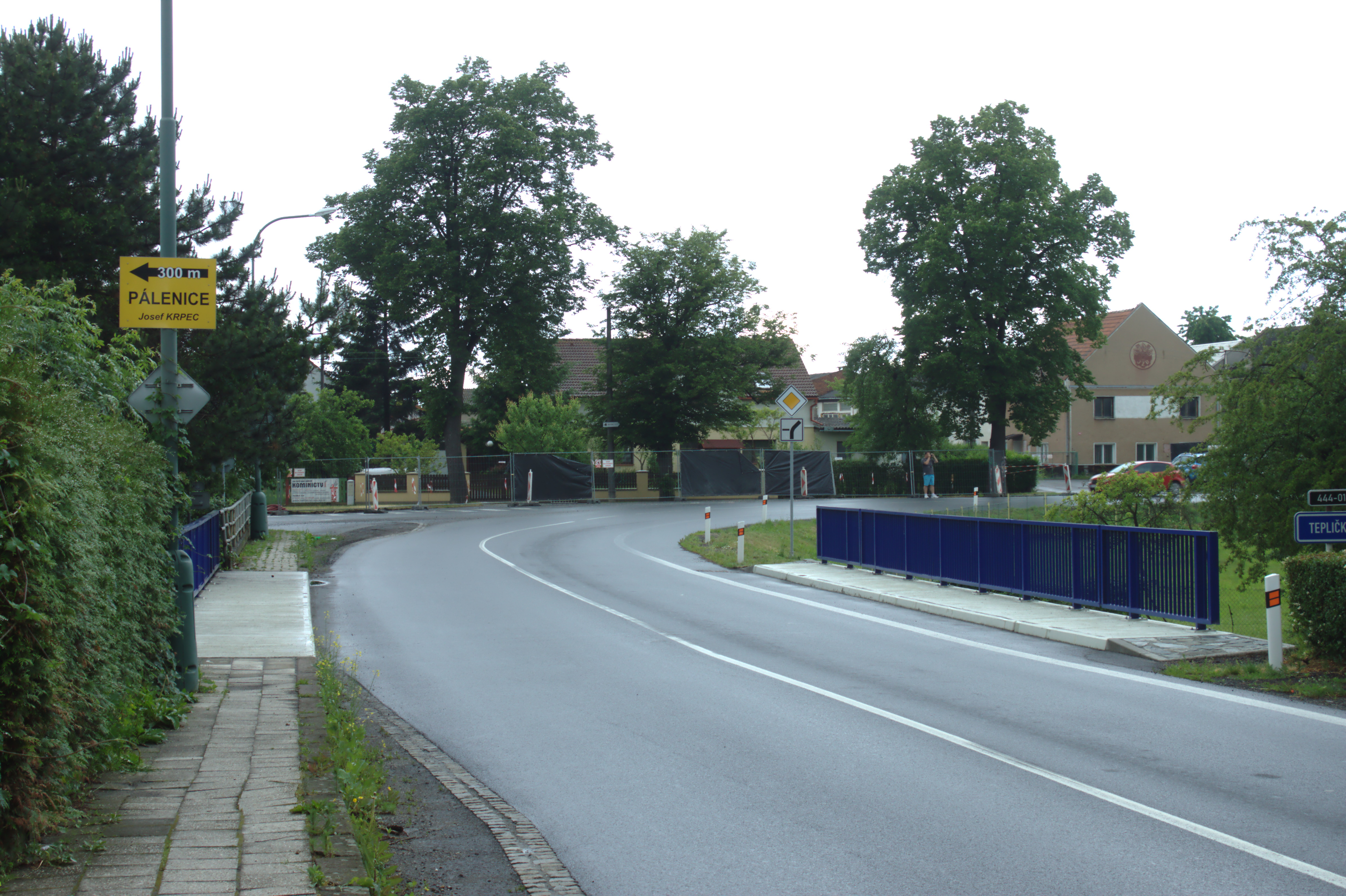 A bridge over the Teplička River in Újezd, Olomouc Region, CZ